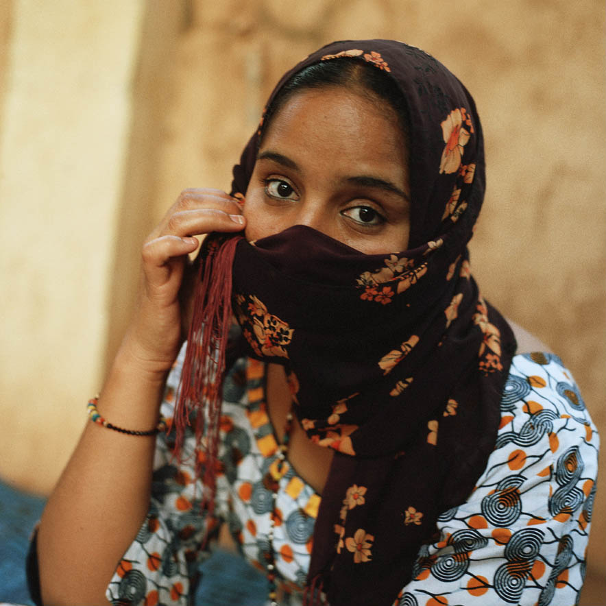 Young Tuareg woman from Mali.